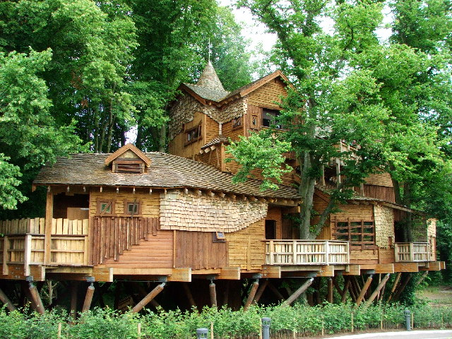 The Treehouse. Built in Alnwick Garden with walkways through the tree canopy